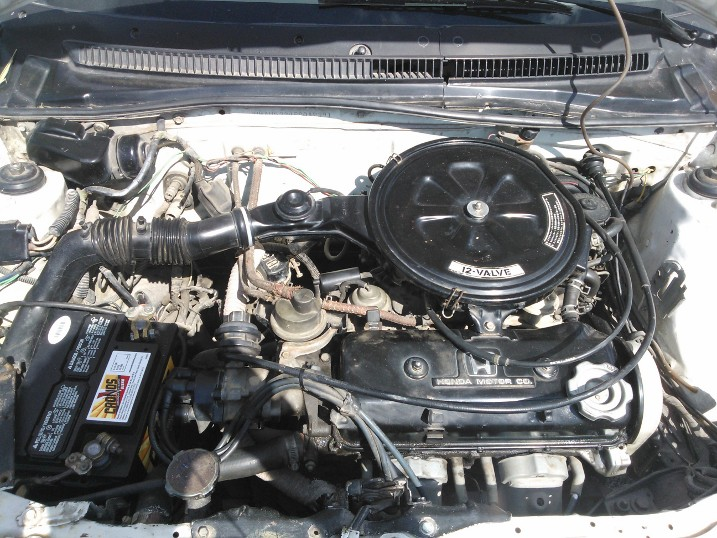 motor honda